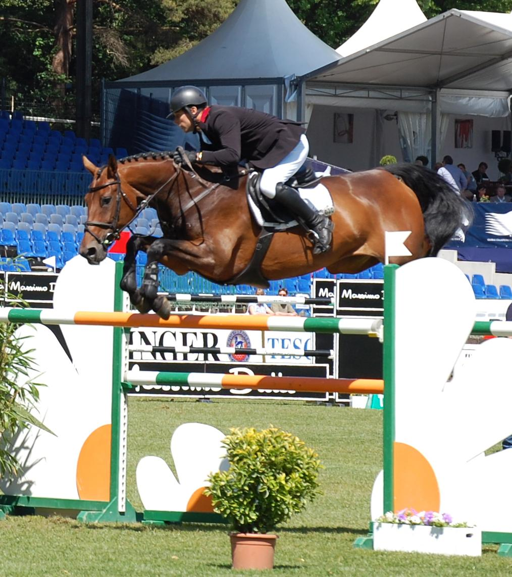 German rider Johannes Ehning with Appearance, "Massimo Dutti Trophy" (jumping competition against the clock), CSI 5* Hamburg 2011